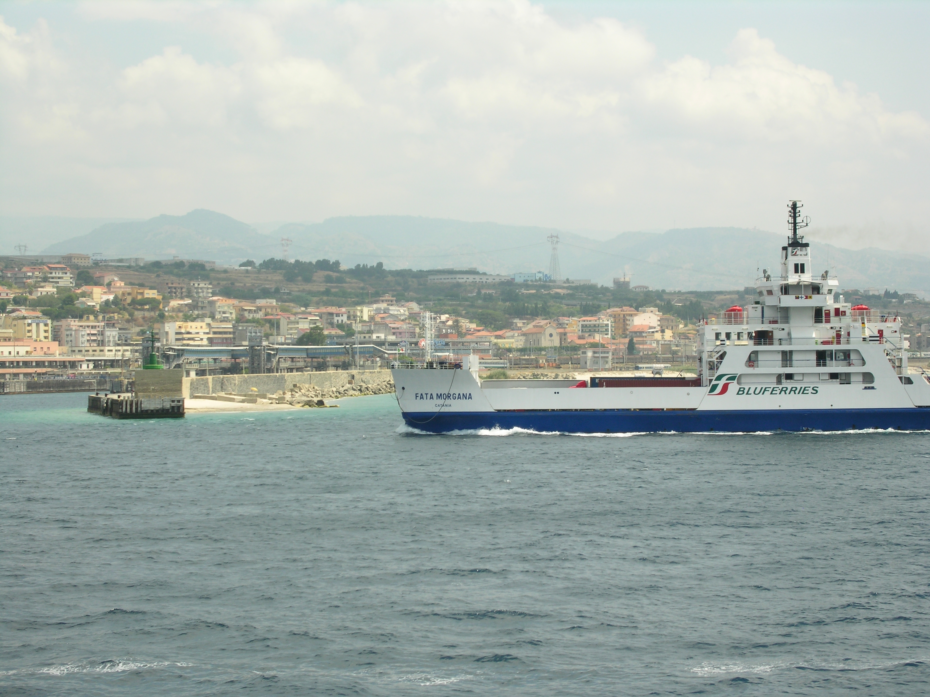 Ferry Fata Morgana